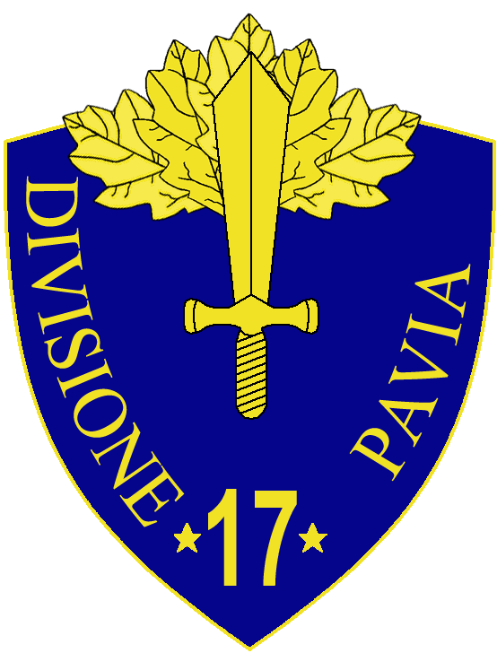 17a Divisione Fanteria Pavia insignia, Regio Esercito, Italy, WWII